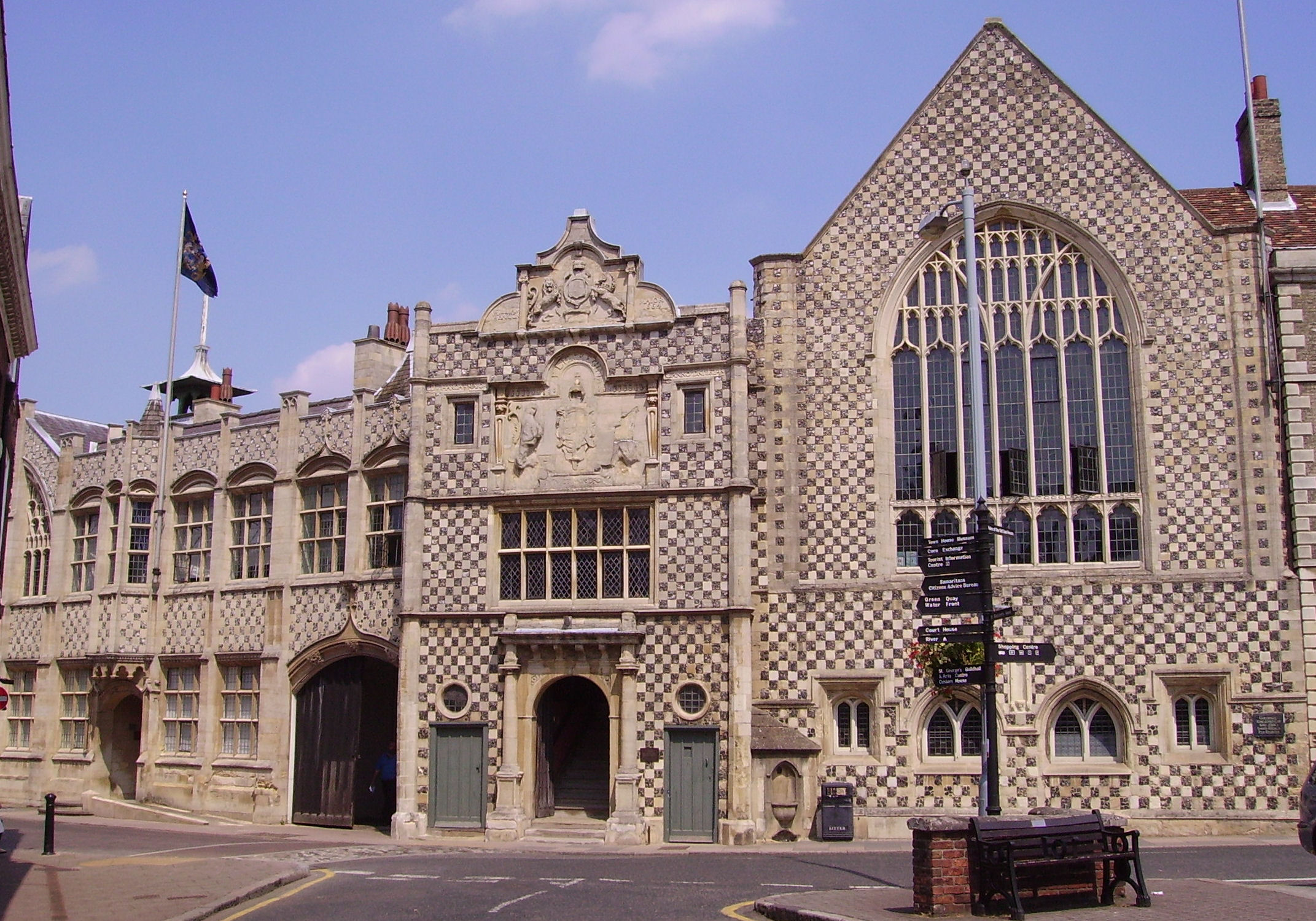 View of King's Lynn in East Anglia, United Kingdom. Seen in the Sherlock Holmes episode "The Man with the Twisted Lip" starring Jeremy Brett.